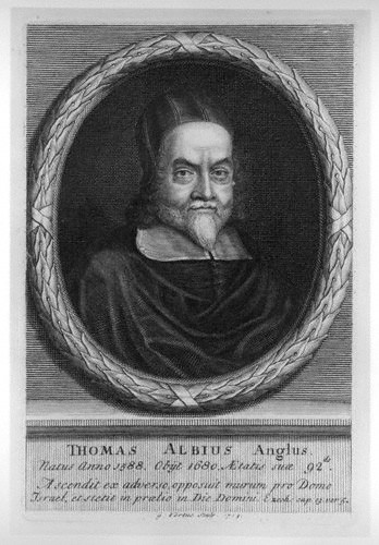 Engraving of Thomas White alias Blacklo (1593-1676).